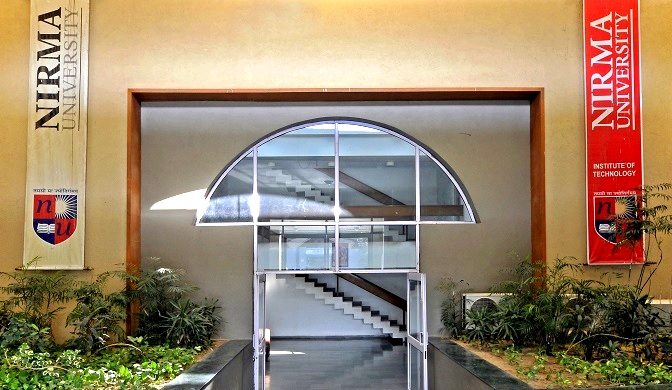 The Institute of Architecture and Planning at Nirma University is an upcoming Institute paving the way for young architects and planners for a professional career.